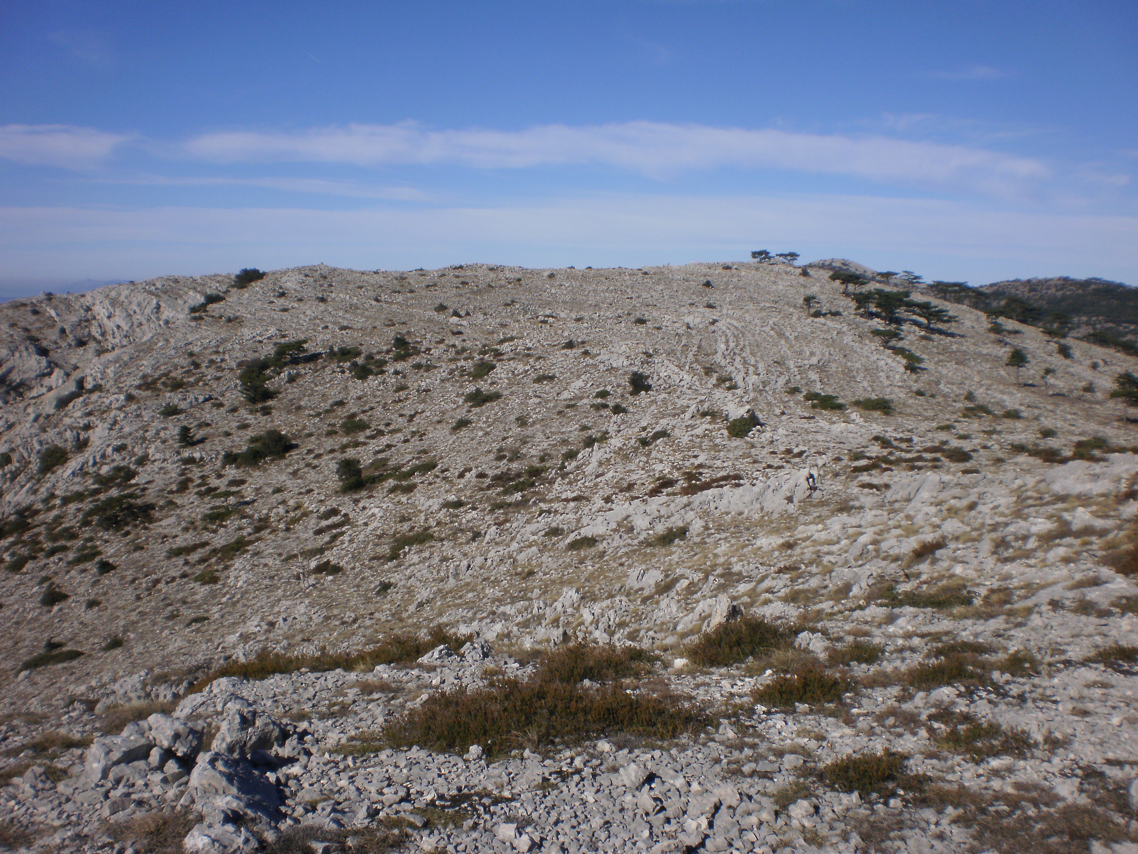 Barren land on Pelješac OLYMPUS DIGITAL CAMERA